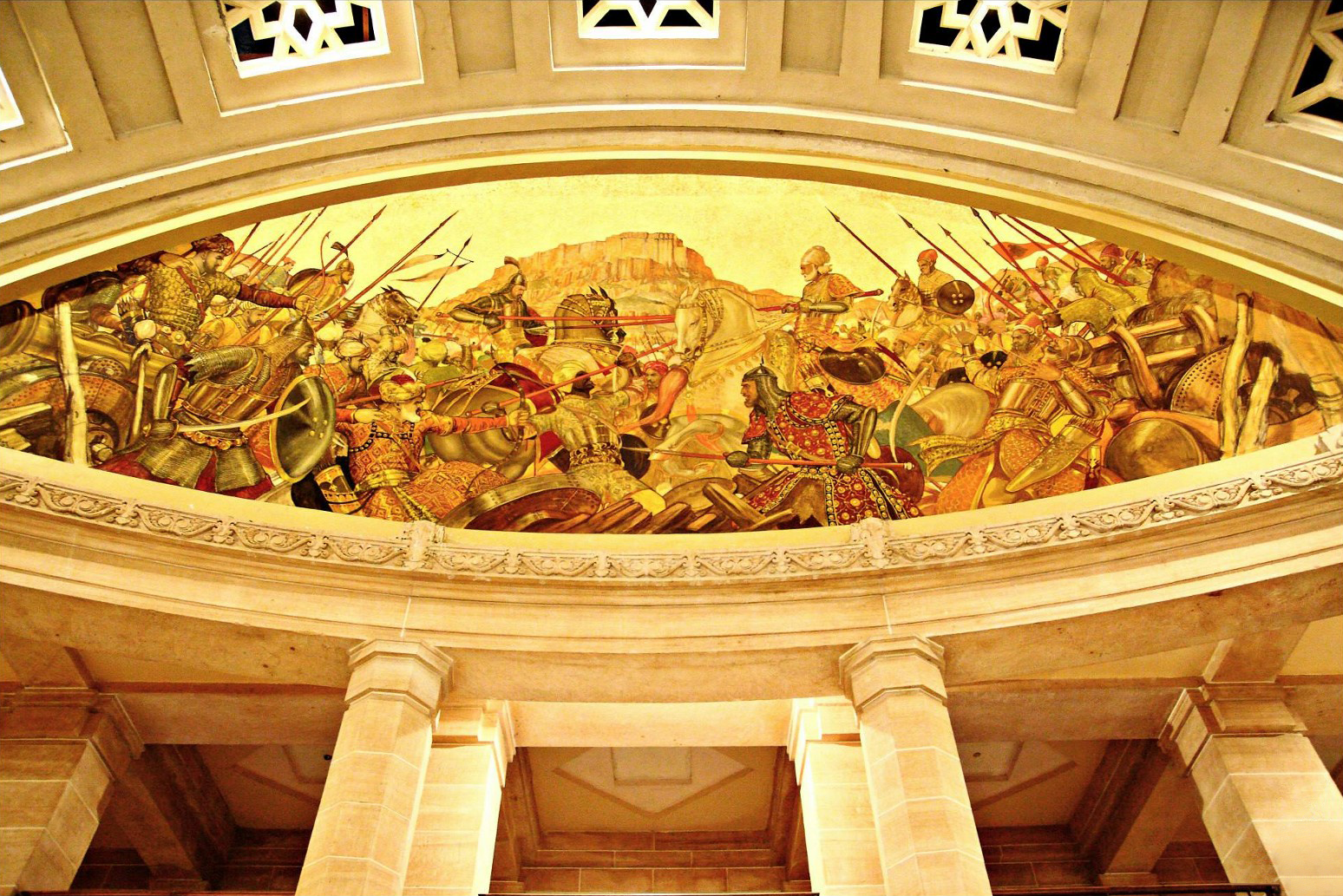 Painting Inside Umaid Bhavan Palace depicting a Rajput War with the Mehrangarh fort in the backdrop by Stefan Norblin, 1943